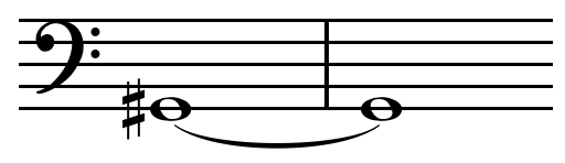 Tie across barline.